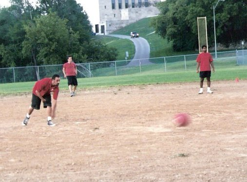 Men playing kickball